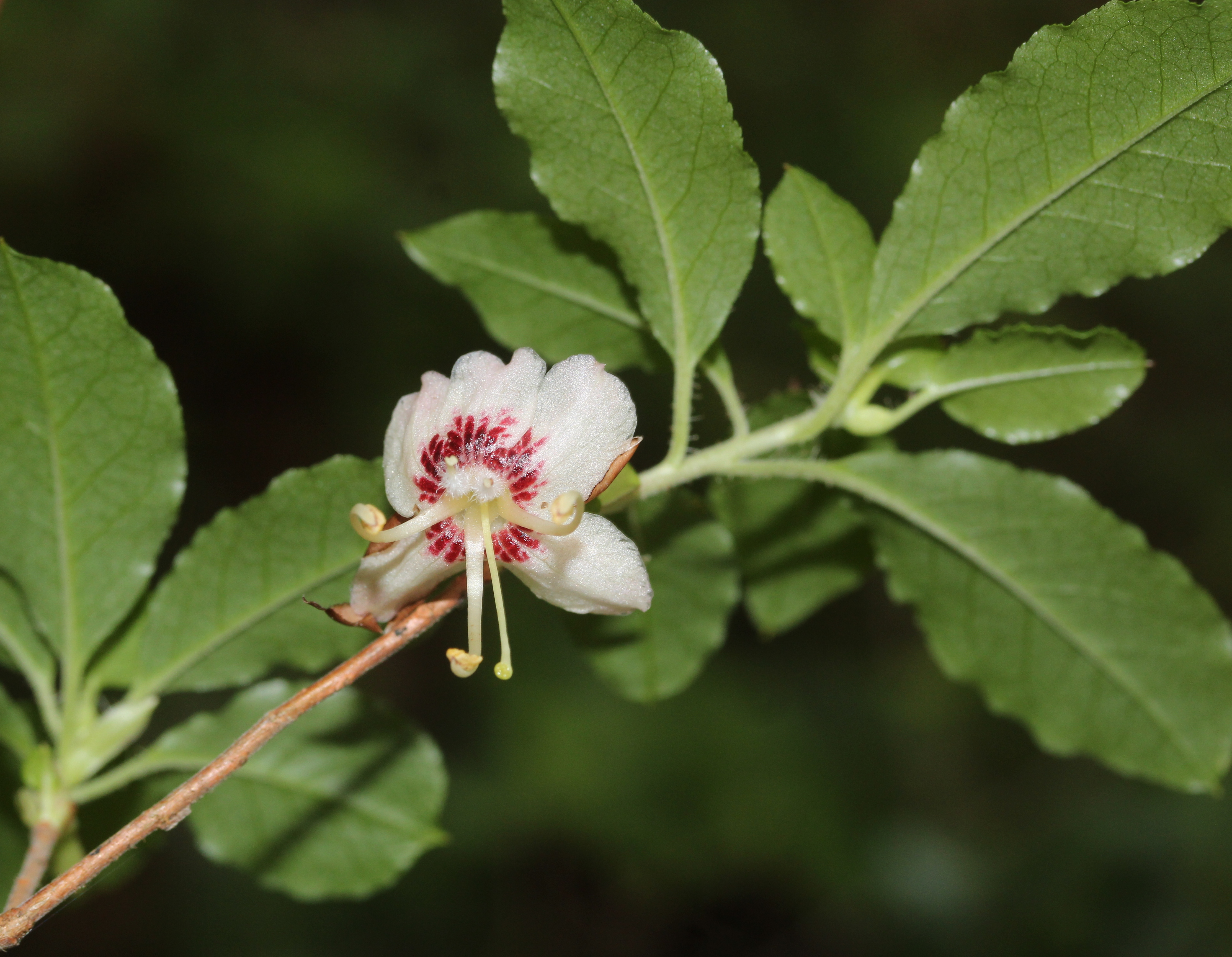 Rhododendron semibarbatum in Mount Hasso, Inuyama, Aichi prefecture, Japan.